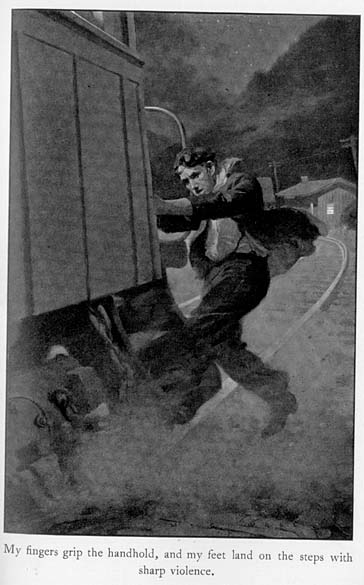 An illustration from "Holding Her Down" by Jack London, that shows an episode from this story. Jack London jumps on a moving train.